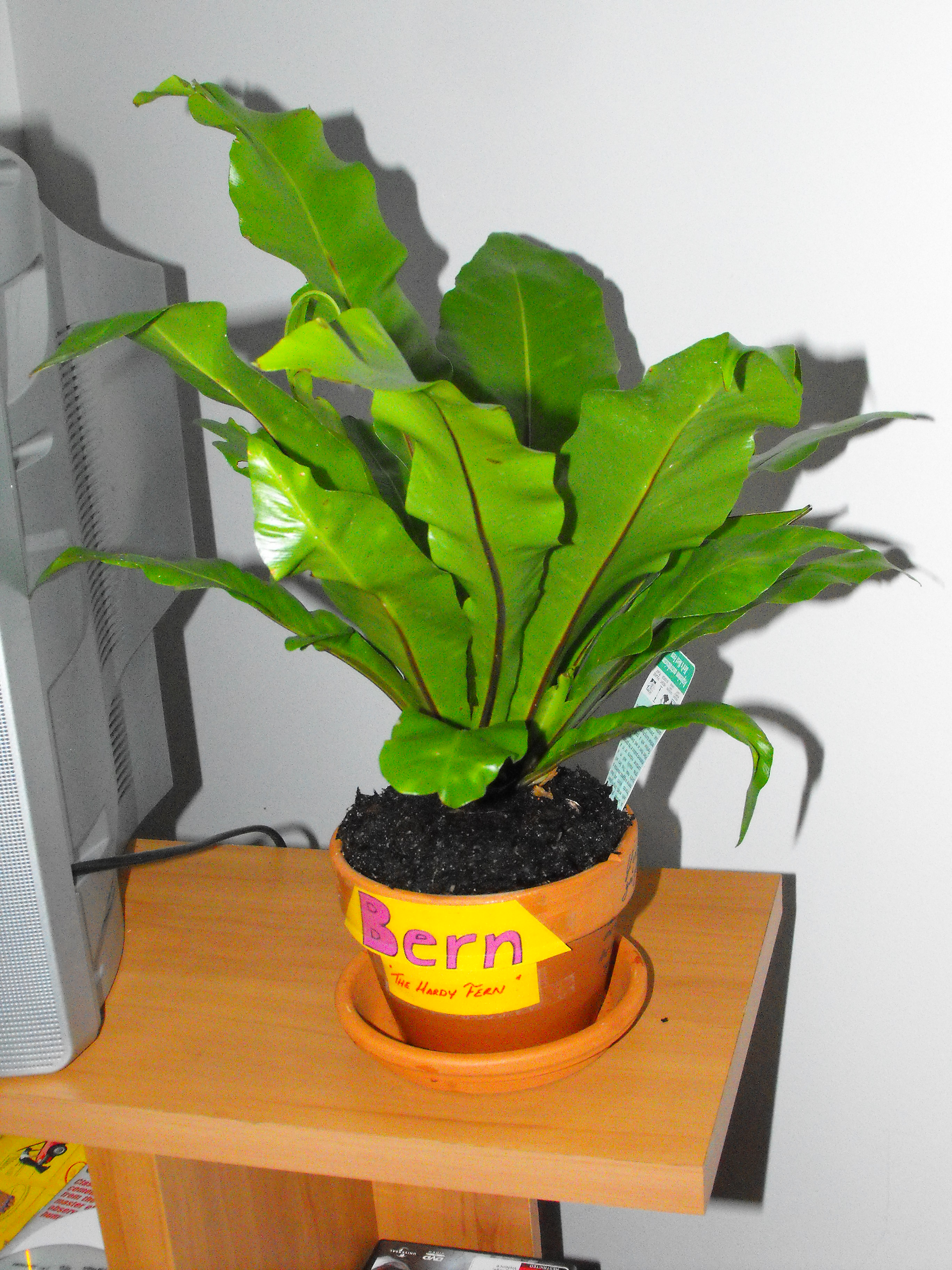 Image:Asplenium australasicum